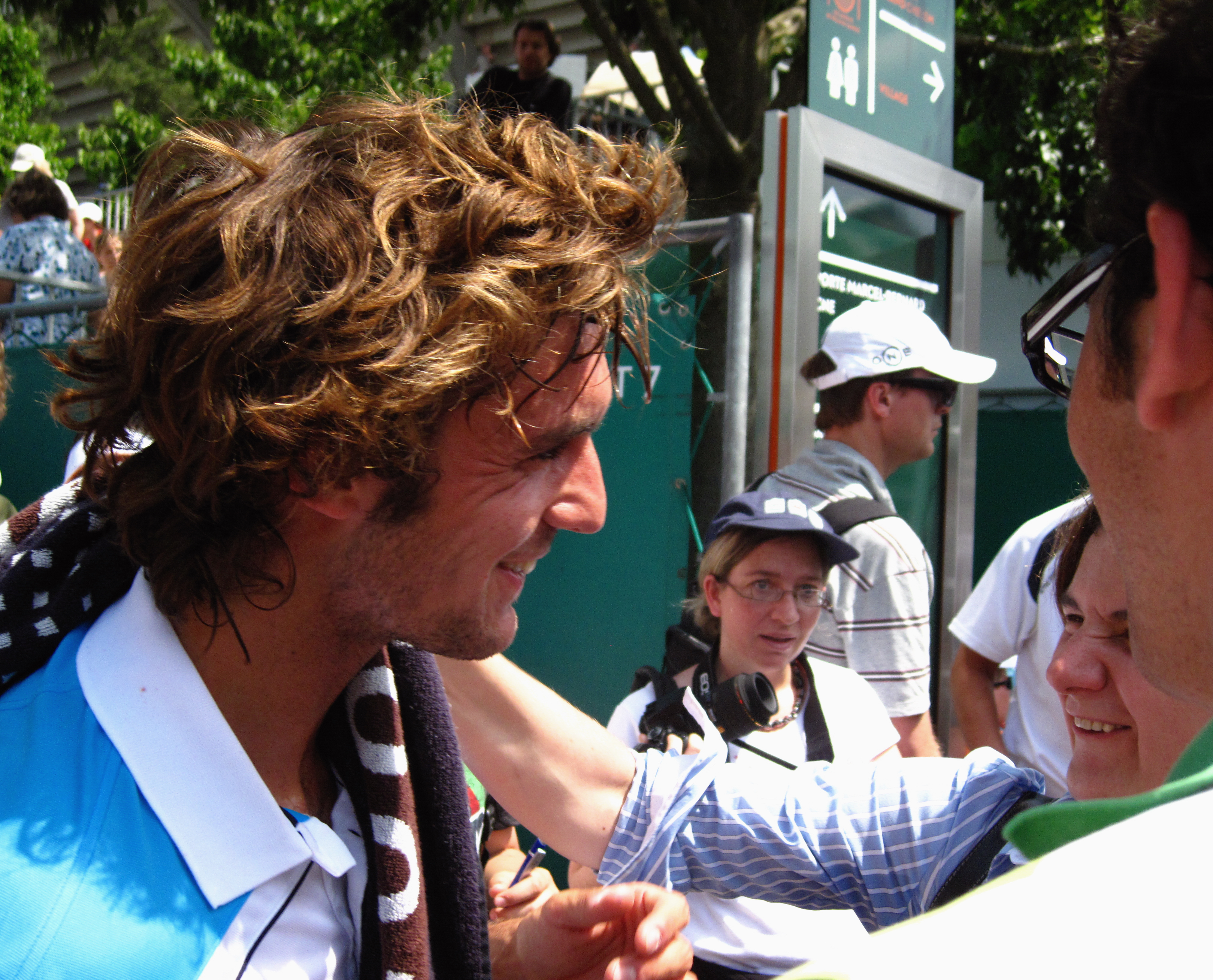 A picture of the late tennis player Mathieu Montcourt